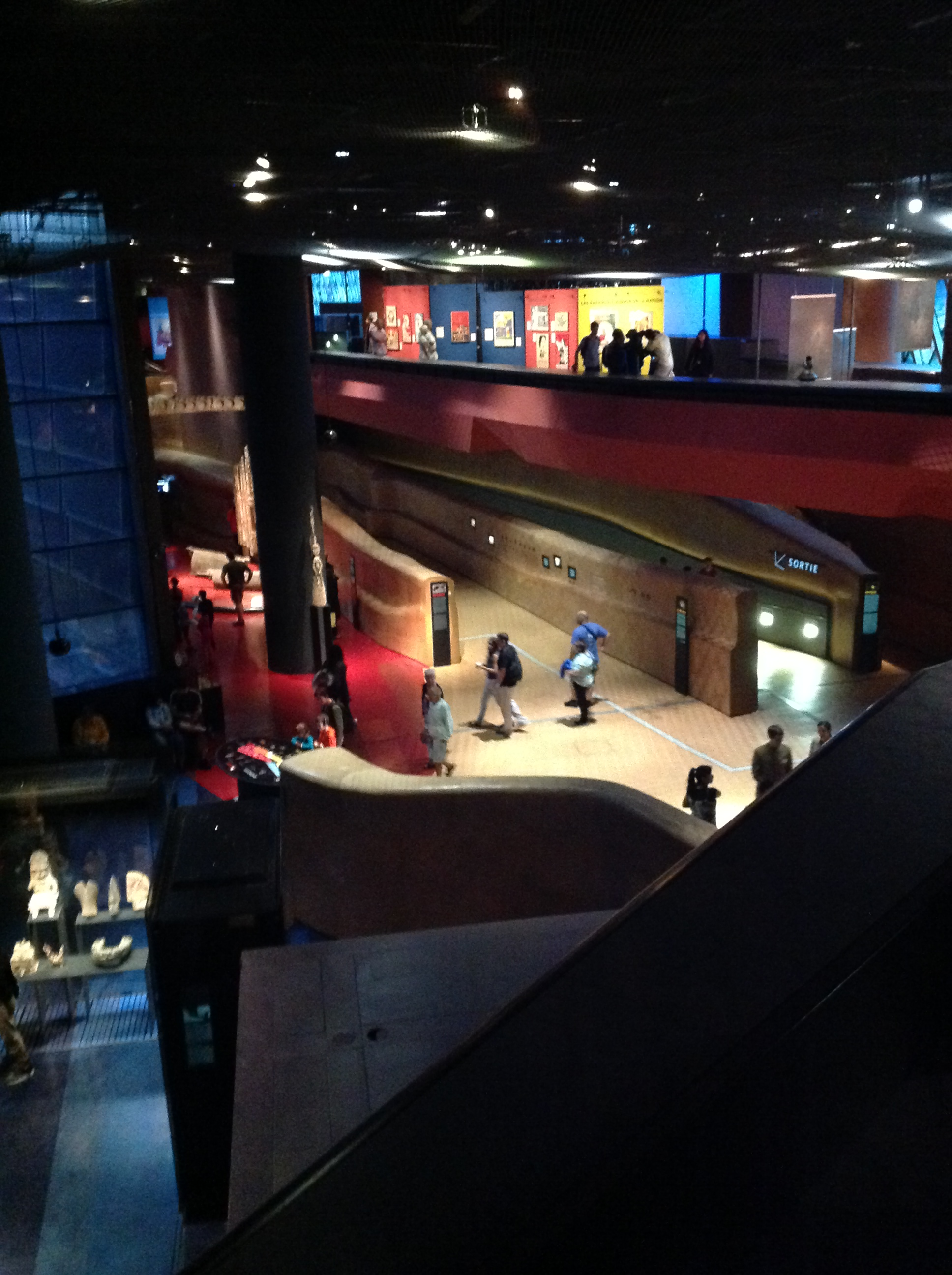 View of the main gallery and the mezzanine of the Musee du quai Branly